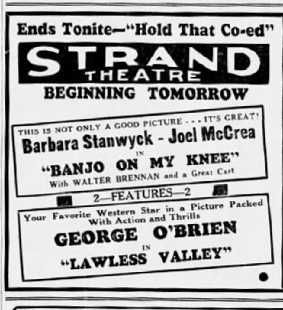 Strand Theater advertisement for the American films Banjo on My Knee (1936) and Lawless Valley (1938) - 28 Nov. 1938 Morning Call, Allentown PA